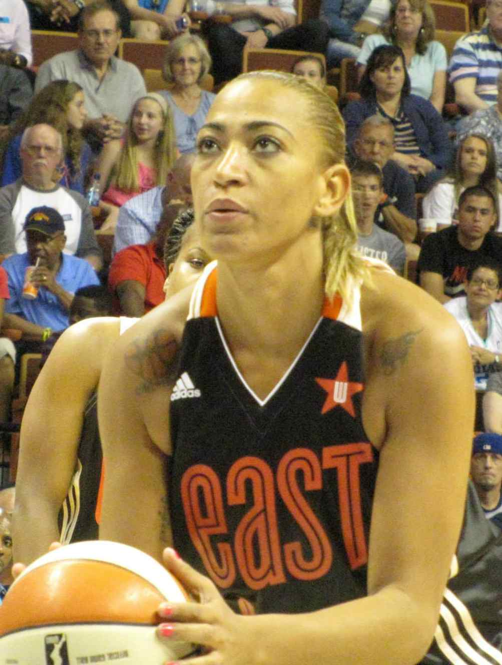 Erika de Souza at 2013 WNBA All-Star game at Mohegan Sun 27 July 2013